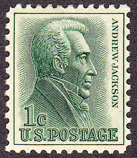 US Postage stamp:Issue of 1963, 1c